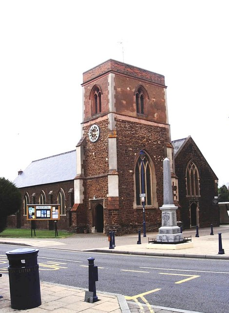 Parish church of St Michael and All Angels, Shefford, Bedfordshire, seen from west-northwest from the High Street. The church is built mainly of carstone, an iron-bearing sandstone in the Woburn sand formation of the local lower greensand. The pale stones in the tower are blocks of local hard chalk.